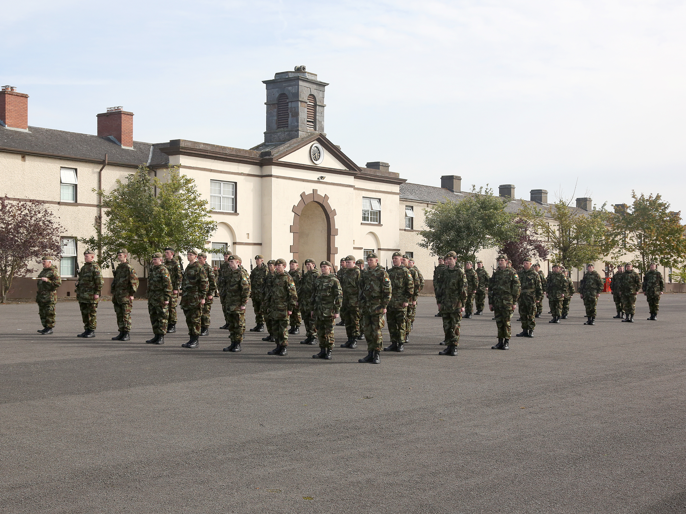 Recruits and Potential NCOs of the 1 Southern Brigade RDF who had their Passing Out Parade in Stephens Barracks Kilkenny